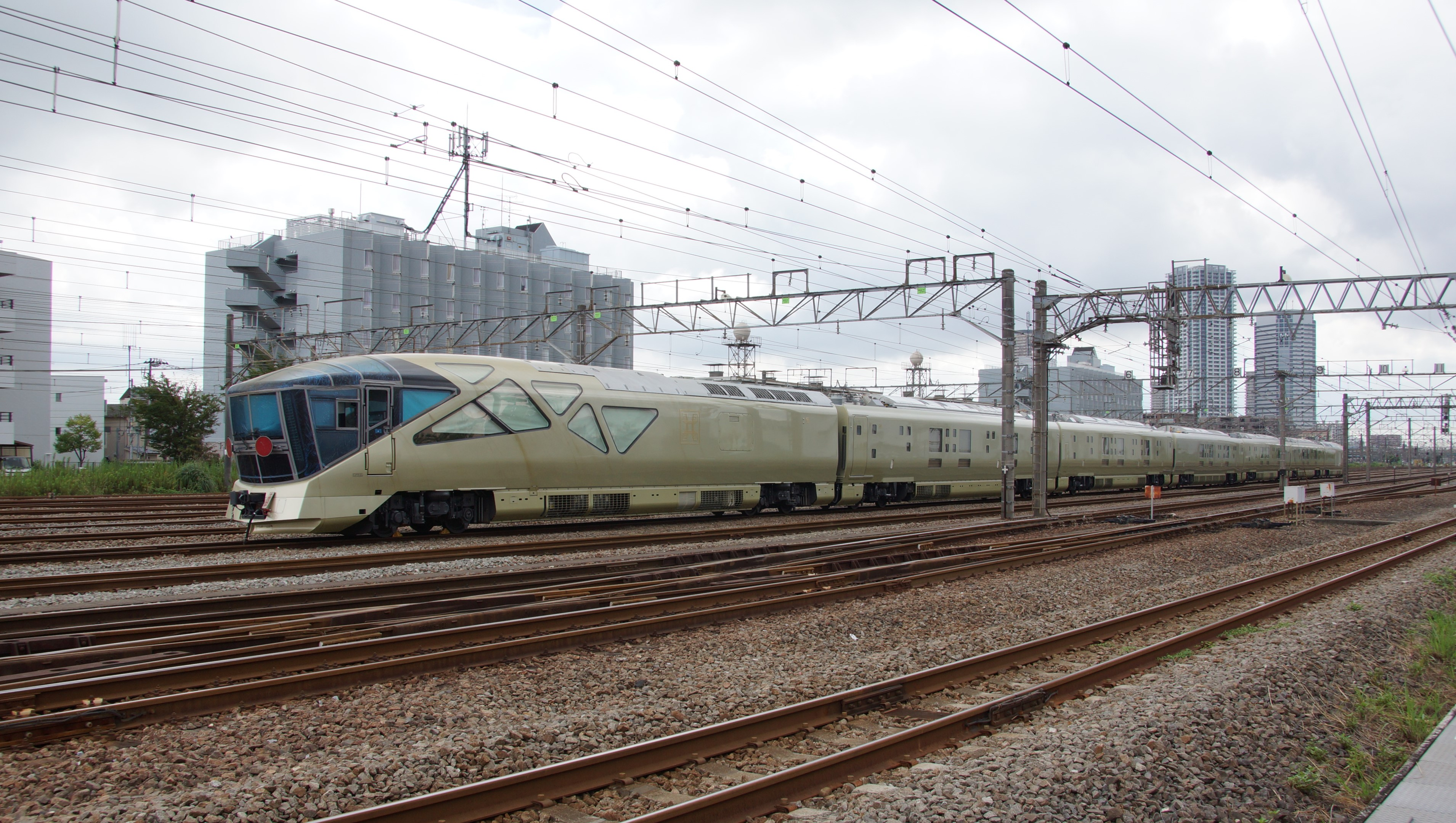 Seven cars (left to right: E001-10, E001-9, E001-8, E001-4, E001-3, E001-2, E001-1) of the 10-car JR East E001 series Train Suite Shiki-shima cruise train at Shin-Tsurumi Yard while on delivery from the Kawasaki Heavy Industries factory in Kobe